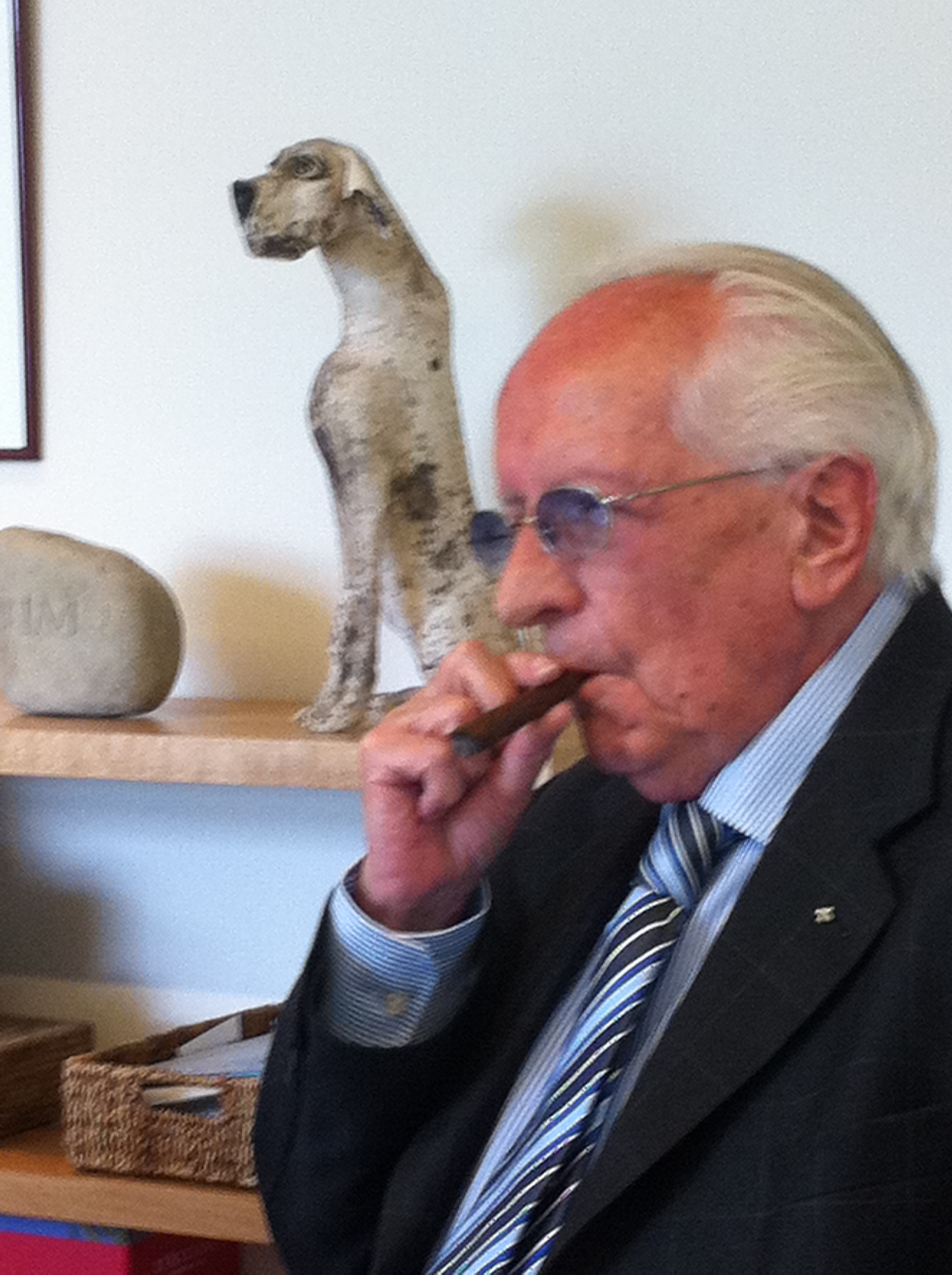 Picture of Jef Mergaert.